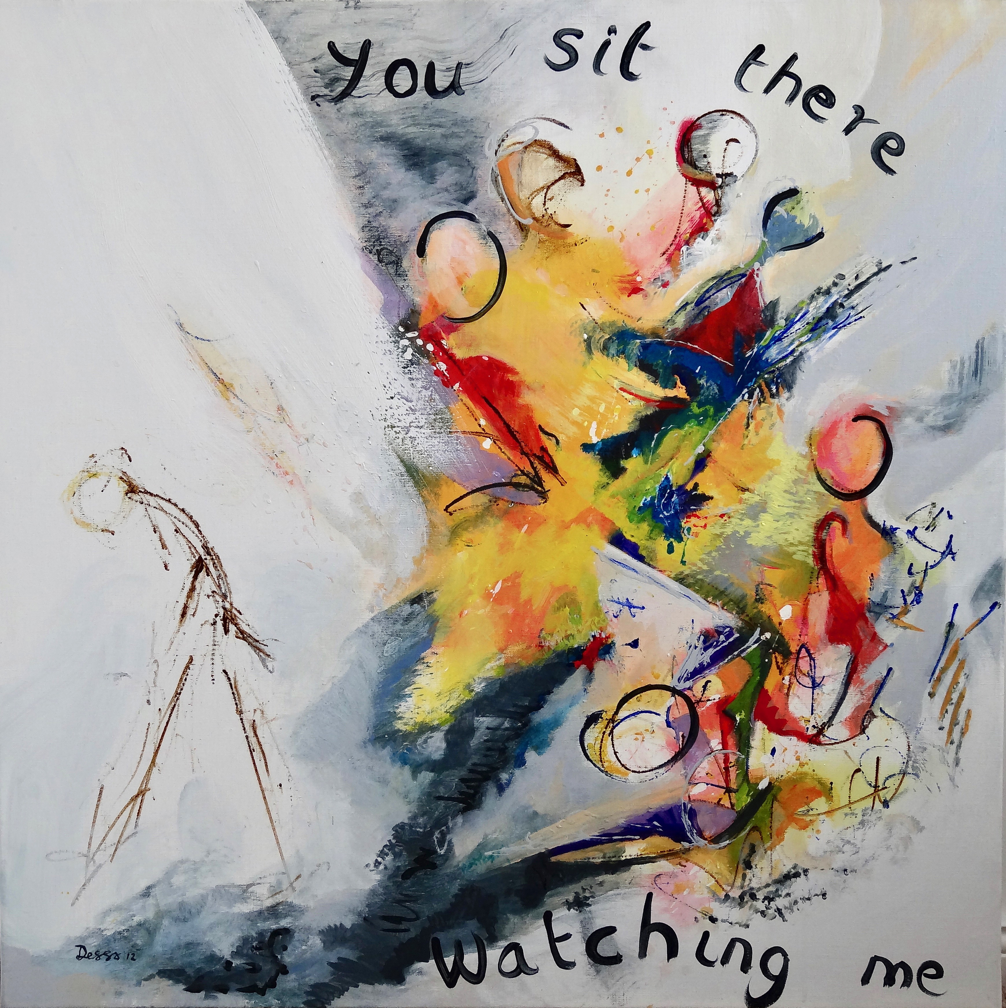 from the series «Composition - Benjamin Britten». 80 x 80 cm, acrylic on canvas. Inspired by Britten's opera «Peter Grimes»